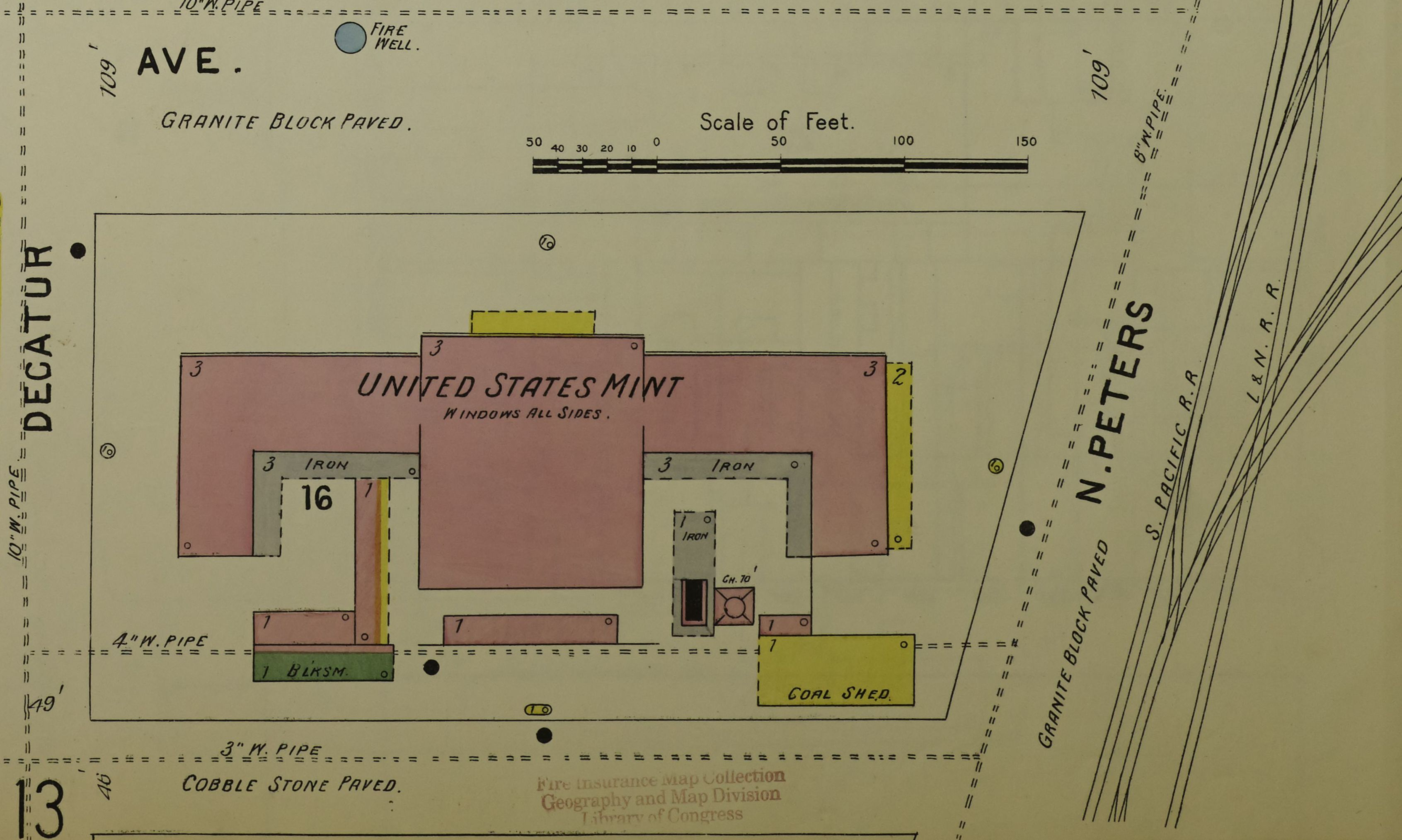 1895; Vol. 2. 109 Sheet(s). Includes Map of Cotton Warehouse, Compress District. 14 skeleton maps. Bound.